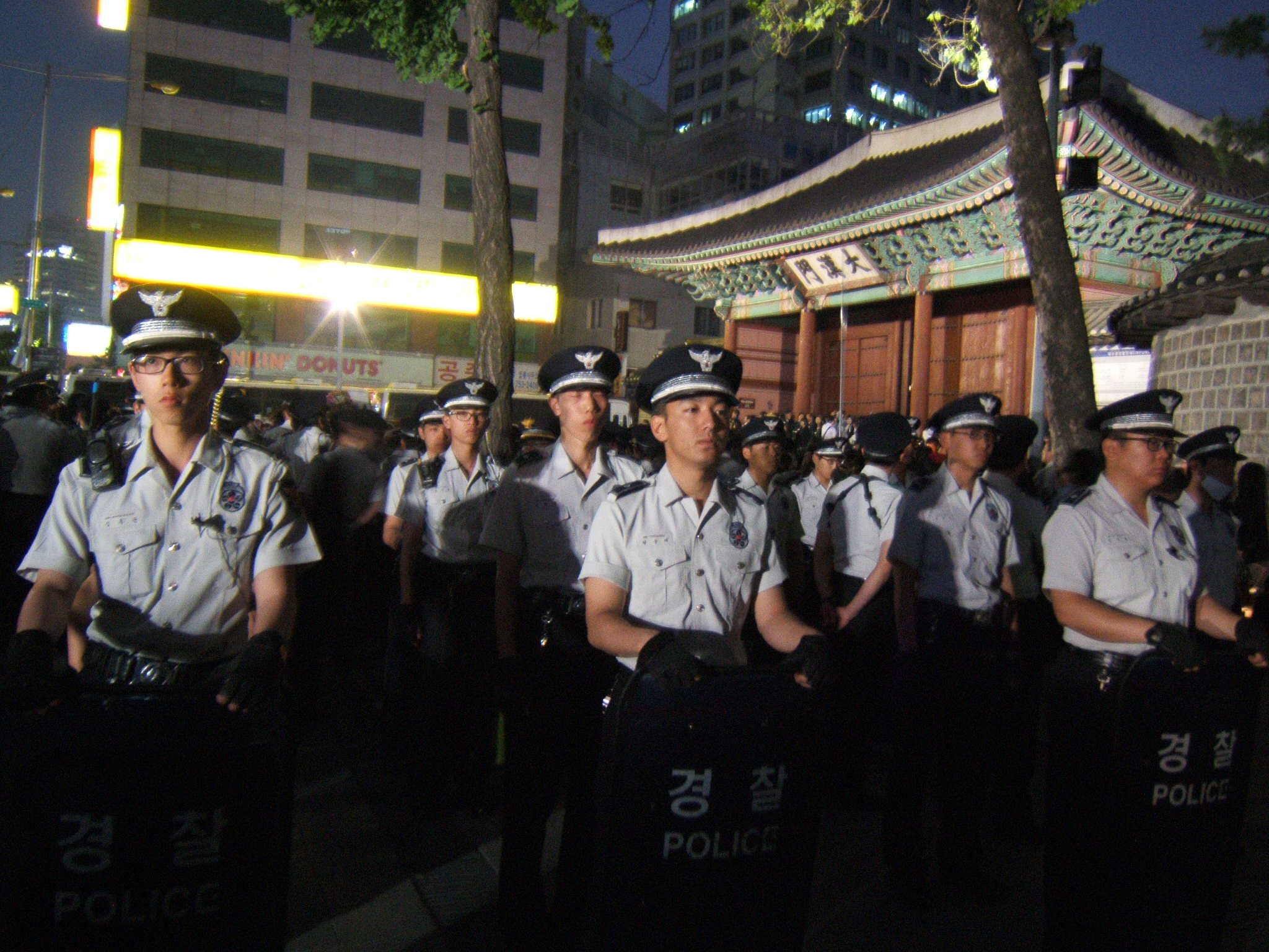 Police officers blocking the street toward Daehanmon where a service for the former President of Korea Roh Moo-hyun is held.